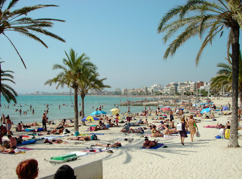 Platja de Palma in S'Arenal, Palma, Spain.